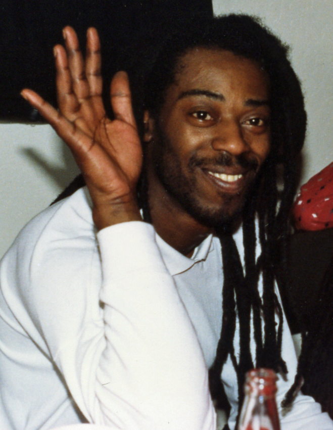 Leo Williams of Big Audio Dynamite, backstage after a show in San Francisco, California